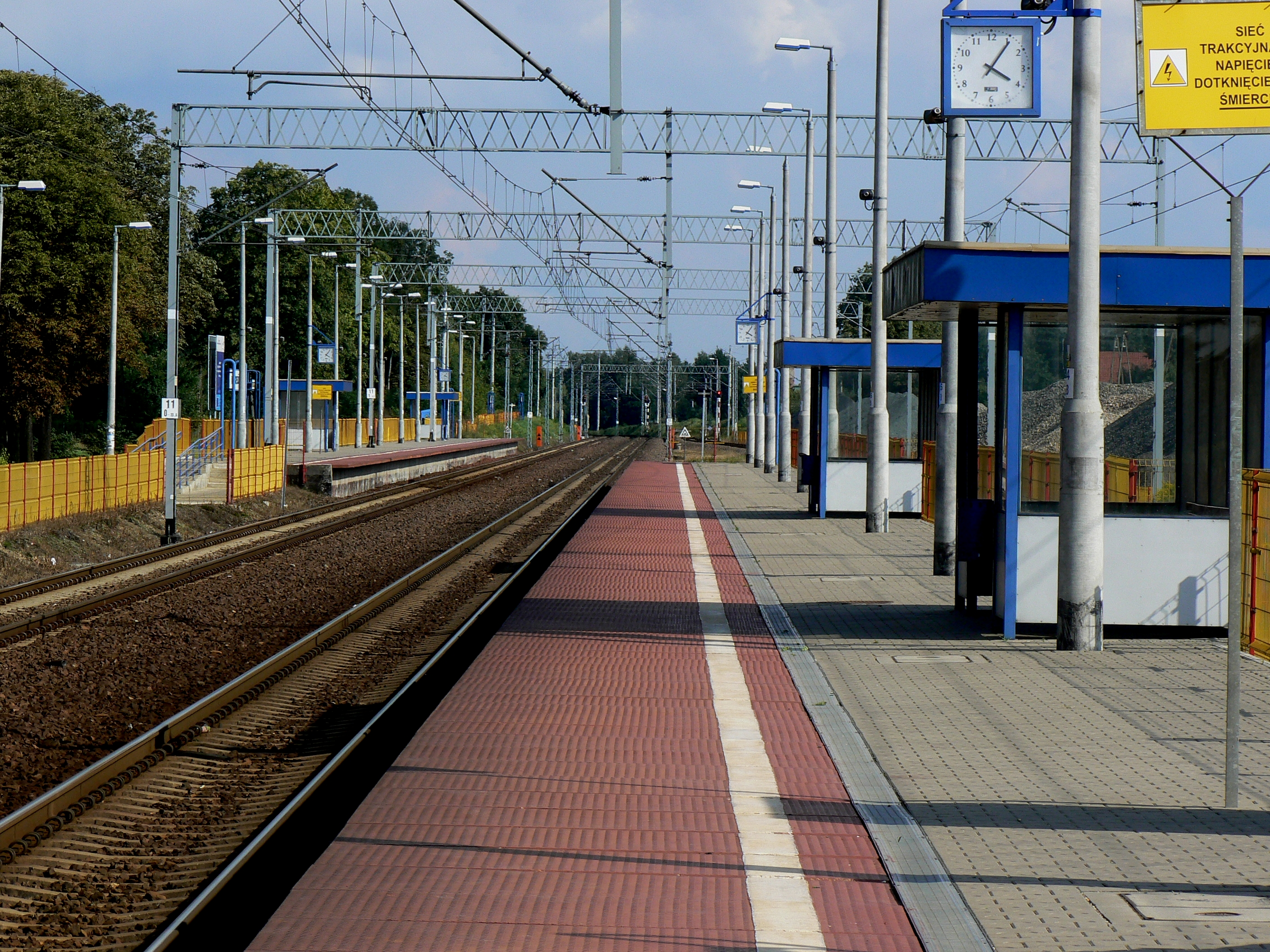 New platforms at the Łódź-Andrzejów railway station, Łódź, Poland.